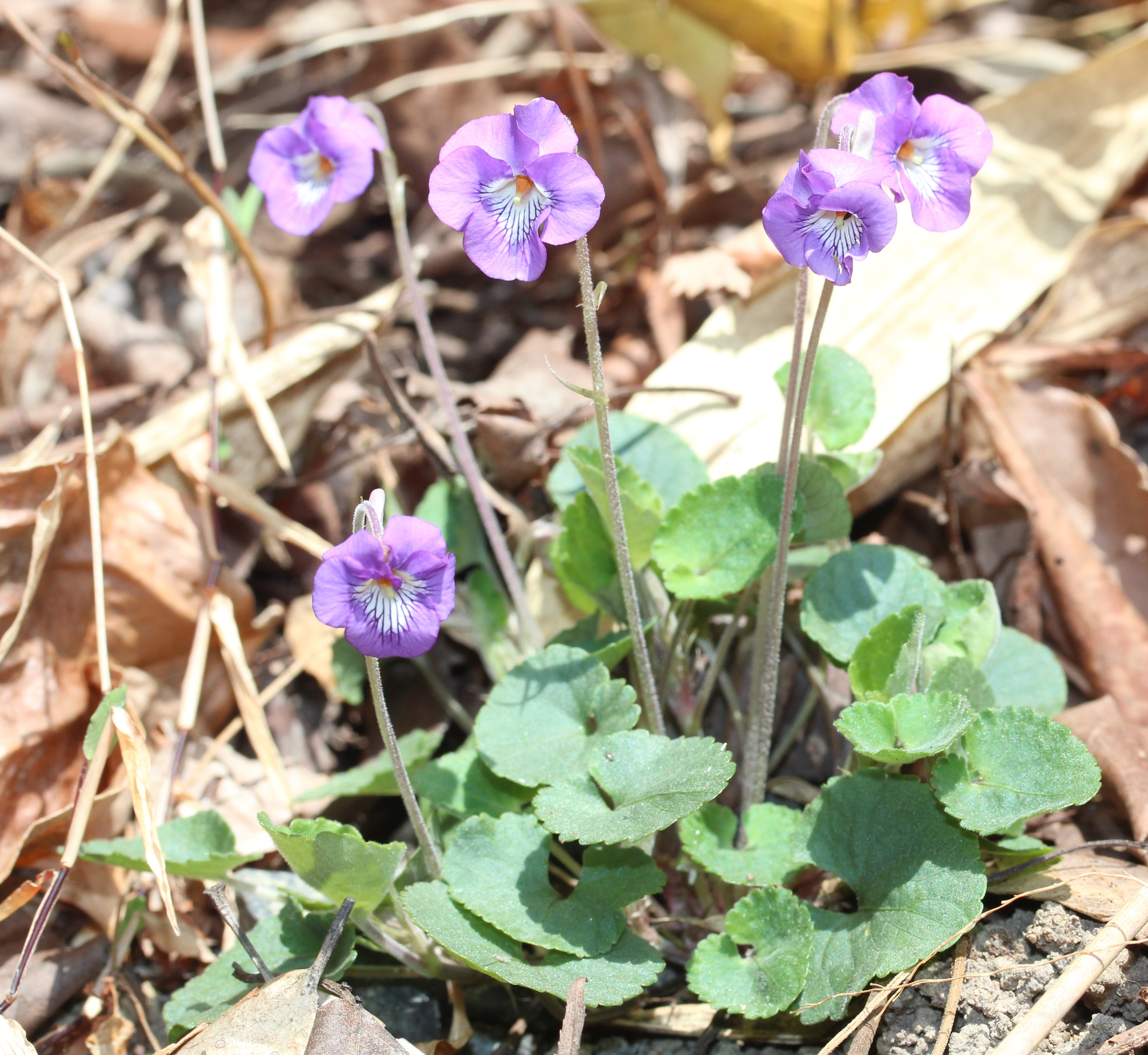 Viola obtusa in Kasugai, Aichi Prefecture, Japan. Canon EOS Kiss X5